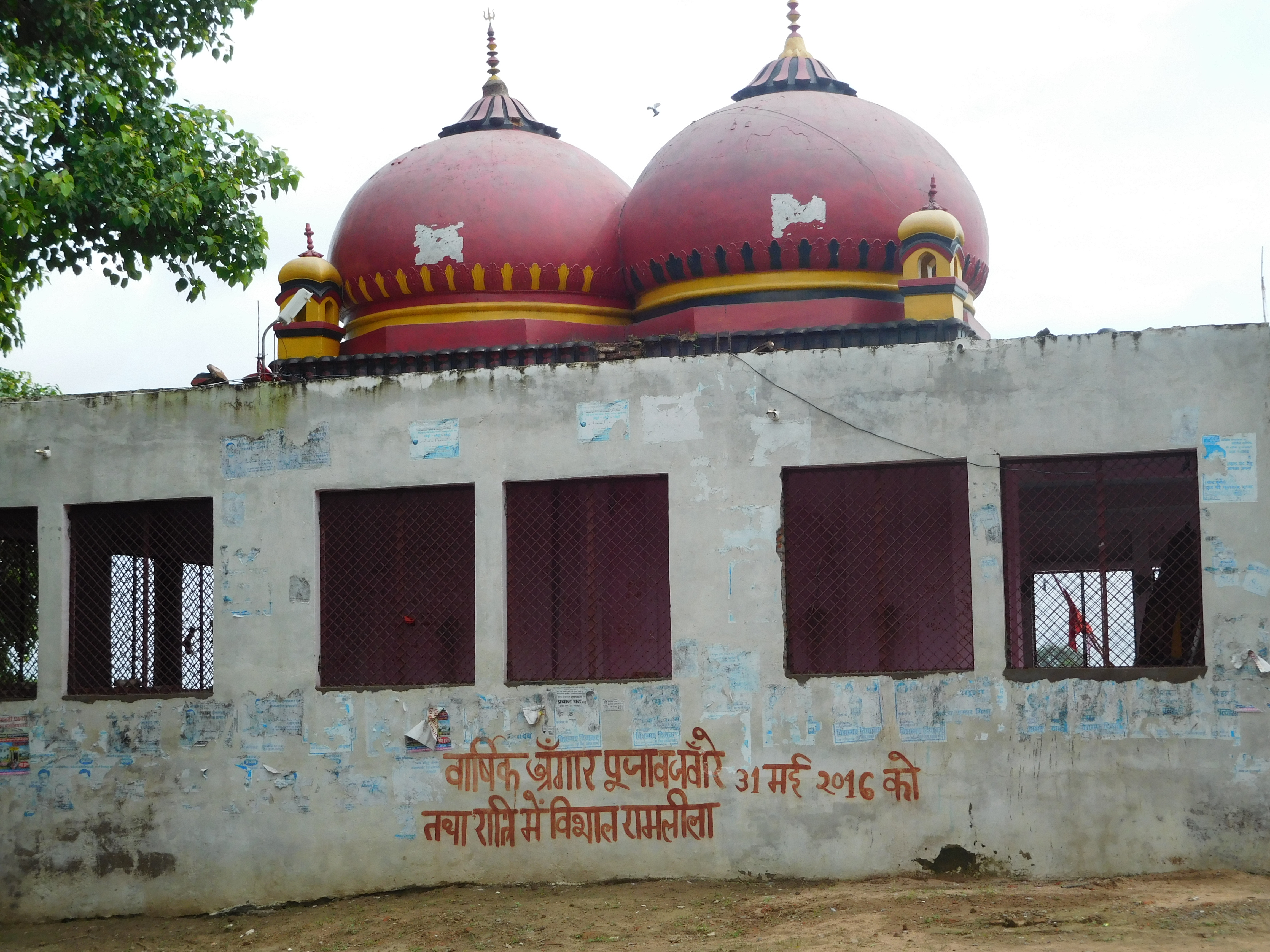 Parhul Devi Temple (west view) is a historical temple at village Lamahra ,Kanpur Dehat,UP ,In India. The Goddess of Parhul Devi is mentioned in Parmalraso written by poet Jagnik.